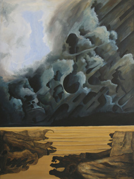 An oil painting titled: Storm on the Waitemata by Christodoulos Moisa in 1977. Oil on board.